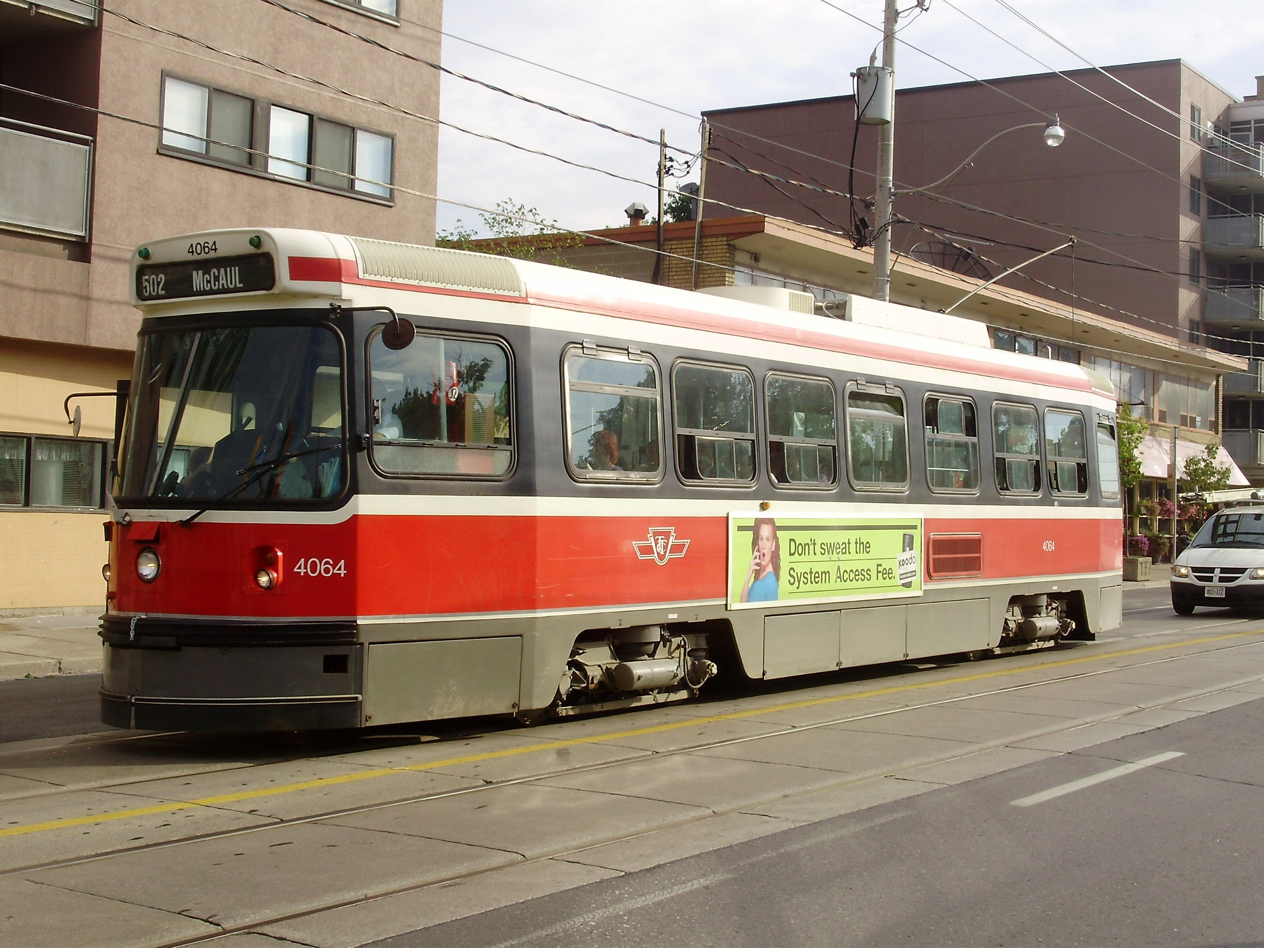 The Toronto Transit Commission's CLRV #4064, serving the 502 Downtowner streetcar route, stops for boarding and alighting passengers at the intersection of Kingston Road and Southwood Drive in Toronto, Ontario, Canada.